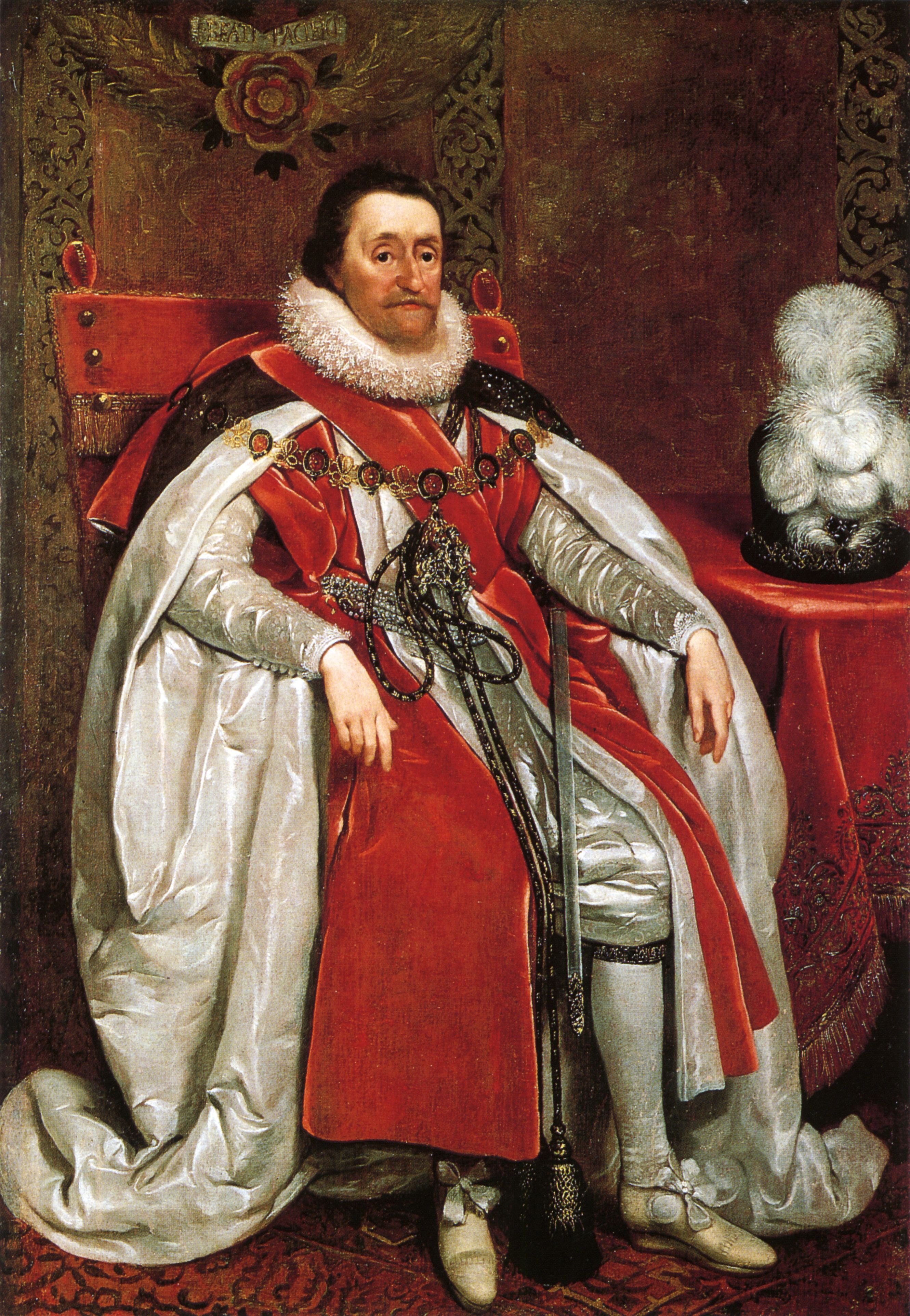 This PNG image has a thumbnail version at File: James I of England by Daniel Mytens.jpg. Generally, the thumbnail version should be used when displaying the file from Commons, in order to reduce the file size of thumbnail images. Any edits to the image should be based on this PNG version in order to prevent generational loss, and both versions should be updated. See here for more information. King James I of England and VI of Scotland, by Daniel Mytens, 1621. National Portrait Gallery: NPG 109 While Commons policy accepts the use of this media, one or more third parties have made copyright claims against Wikimedia Commons in relation to the work from which this is sourced or a purely mechanical reproduction thereof. This may be due to recognition of the "sweat of the brow" doctrine, allowing works to be eligible for protection through skill and labour, and not purely by originality as is the case in the United States (where this website is hosted). These claims may or may not be valid in all jurisdictions. As such, use of this image in the jurisdiction of the claimant or other countries may be regarded as copyright infringement. Please see Commons:When to use the PD-Art tag for more information.See User:Dcoetzee/NPG legal threat for original threat and National Portrait Gallery and Wikimedia Foundation copyright dispute for more information. This tag does not indicate the copyright status of the attached work. A normal copyright tag is still required. See Commons:Licensing.